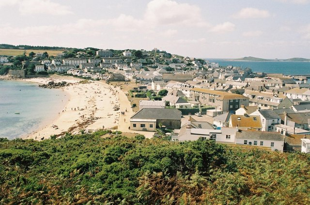 Hugh Town Looking down over Hugh Town, St. Mary's, Isles of Scilly